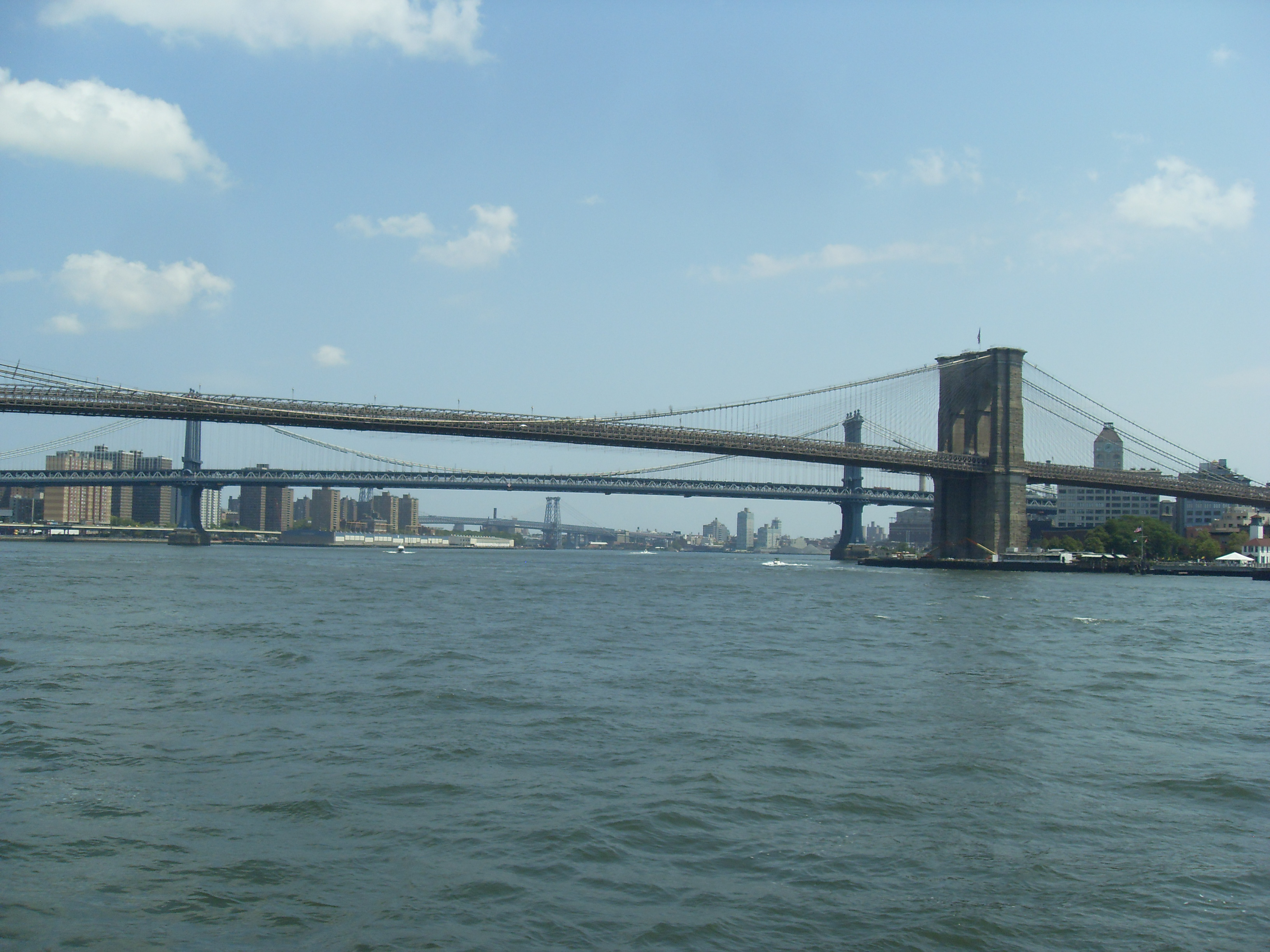 Brooklyn Bridge, Manhattan Bridge and the Brooklyn neighborhoods Dumbo and Fulton Ferry from East River